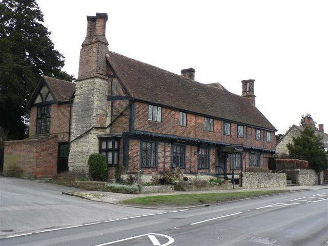 Priory Hotel, Whitchurch, Buckinghamshire: view from the High Street, looking east. The hotel was built in the 15th century, altered in the mid-16th century and renovated in the 20th century.